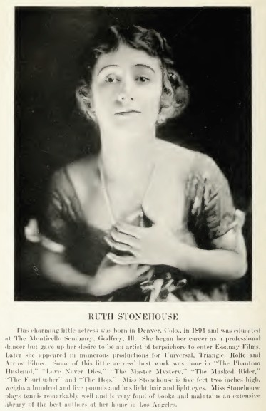 Actress Ruth Stonehouse from Who's Who on the Screen, published by Ross Publishing Co., 1920 [1]